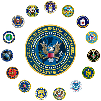 This resembles the 17 IC-related agencies within the executive branch of the United States Government (USG). The U.S. Intelligence Community (IC) consists of 16 agencies and organizations under the Office of the Director of National Intelligence that all collaborate with the U.S. Justice Department.